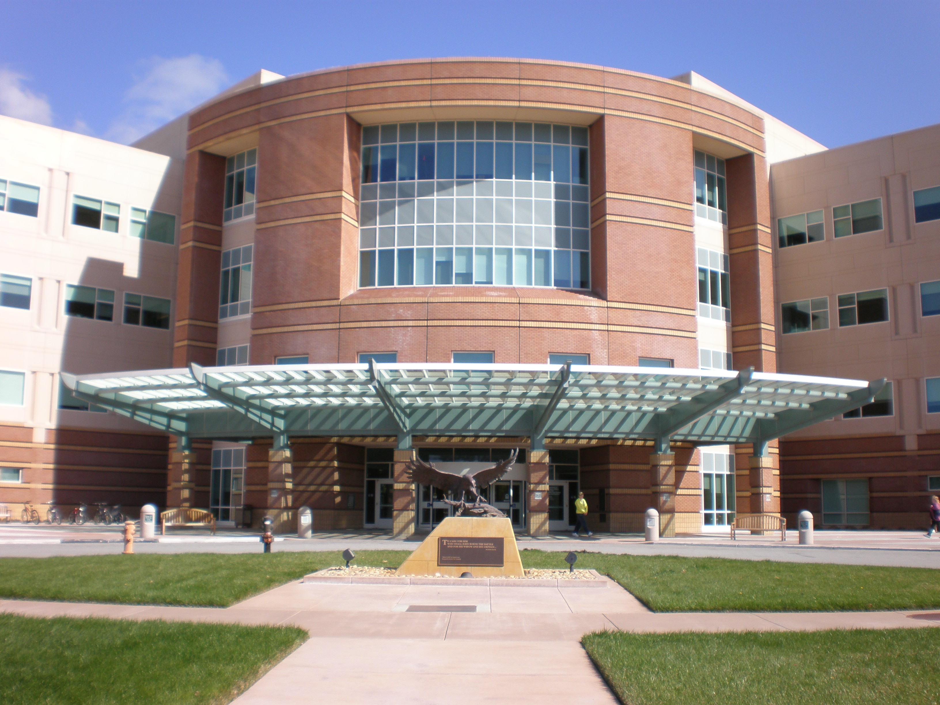 The VA Palo Alto Health Care System in Palo Alto, California.